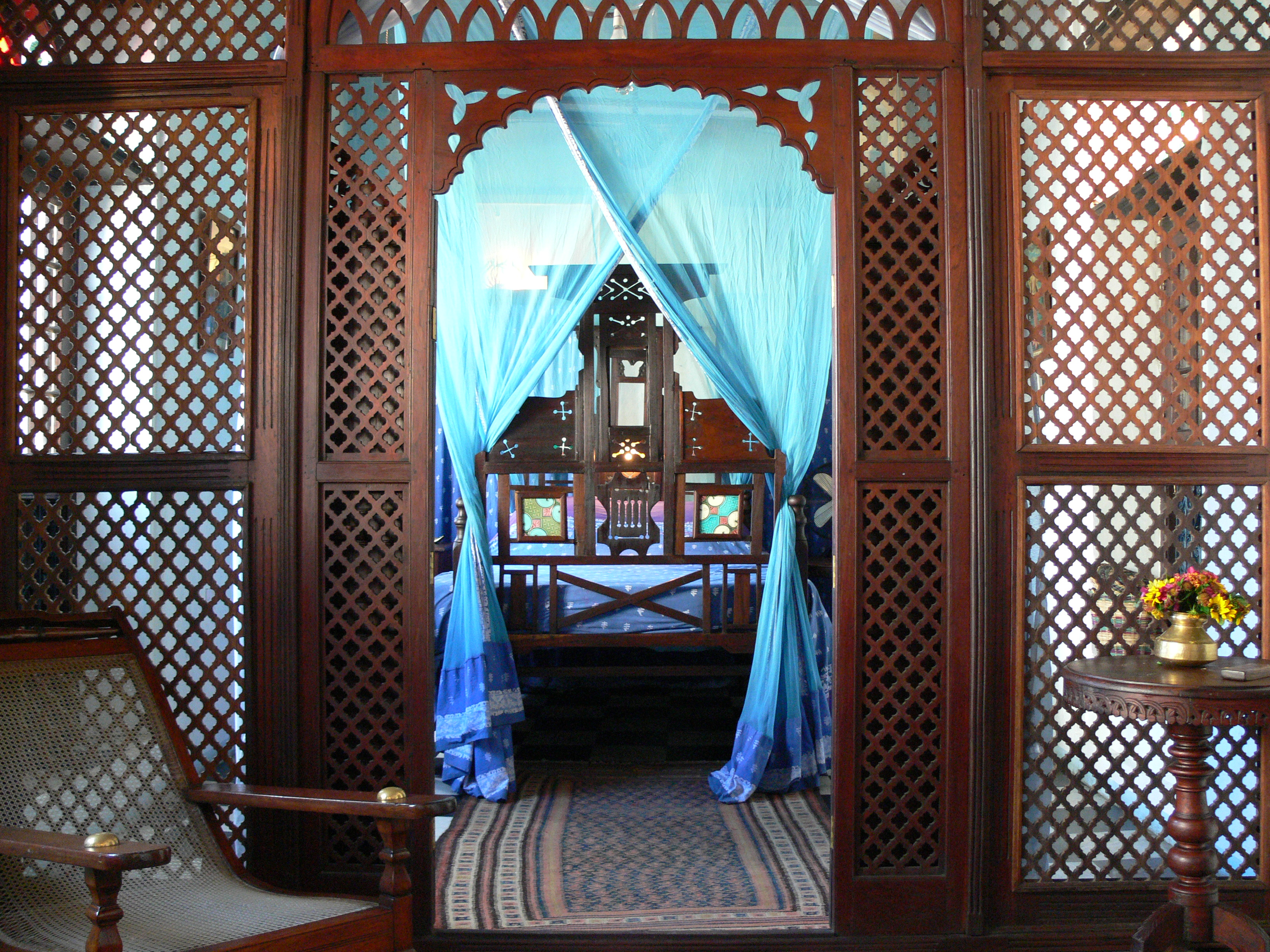 Detail from the blue suite at the Emerson & Green in Stonetown. Showing carved screens and four-poster bed with blue curtains.